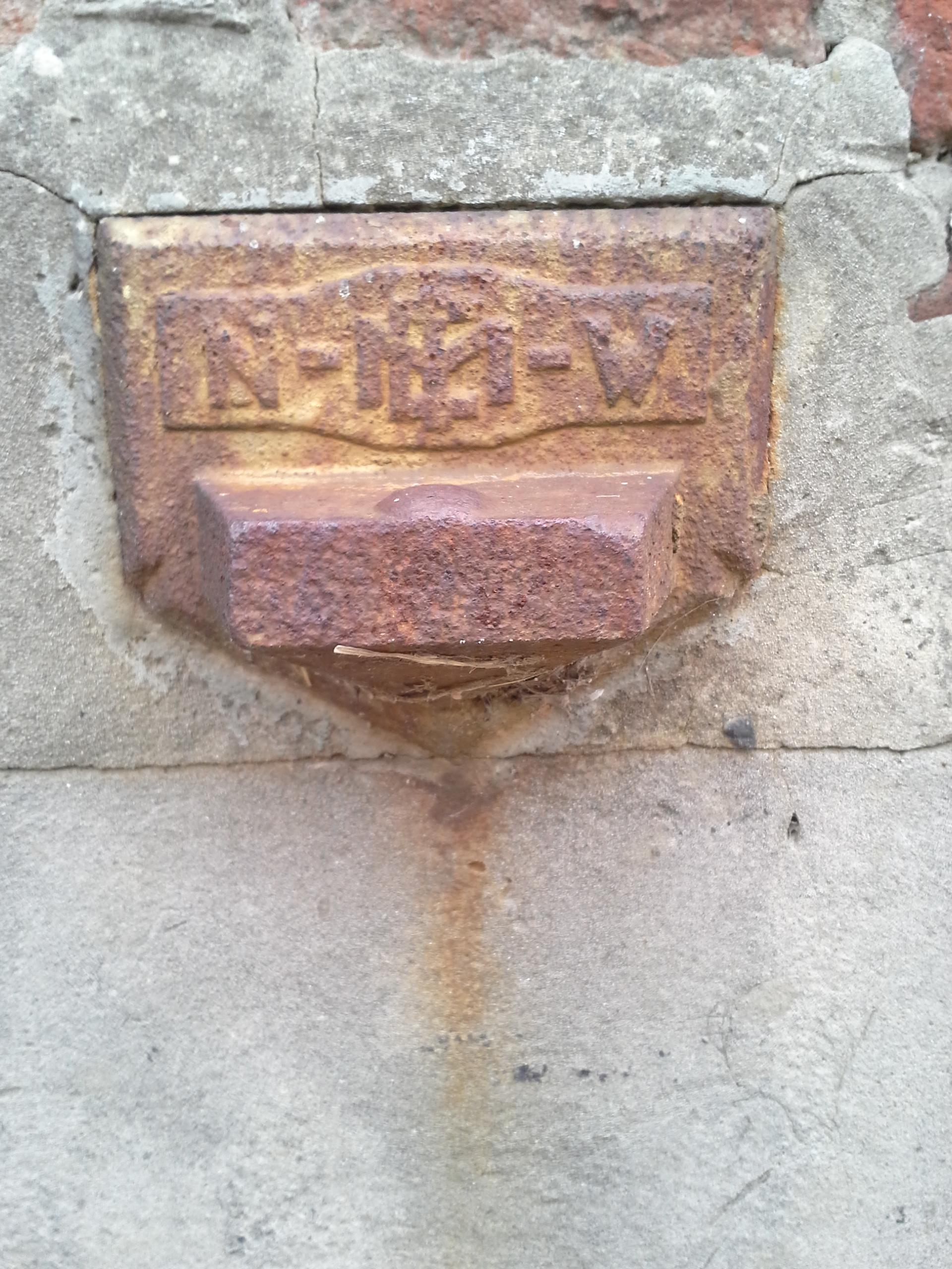 Geodetic mark Gc45 Relegem Asse Belgium